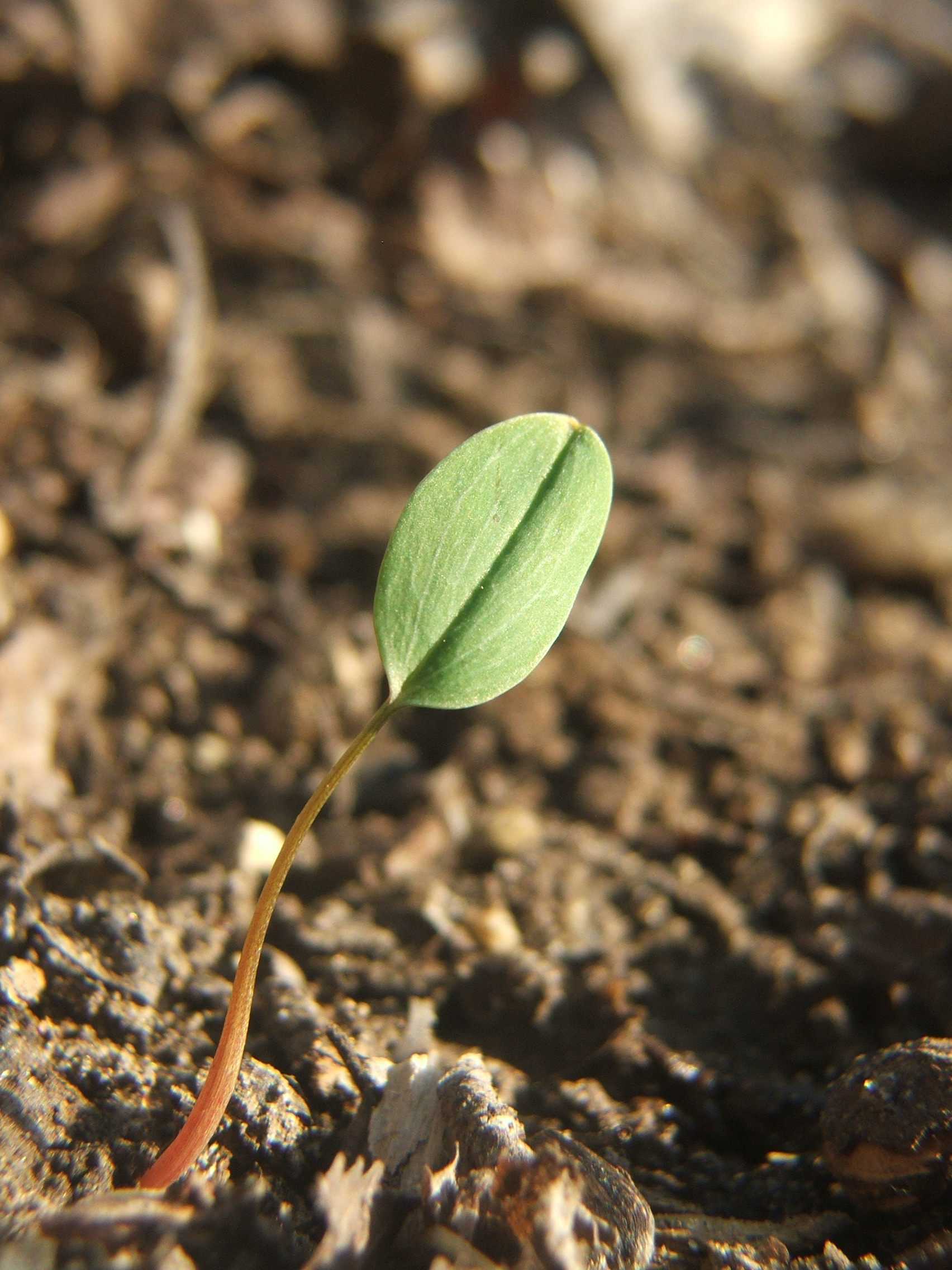 Corydalis cava seedling. Height: 30 mm, length of leaf: 10 mm.